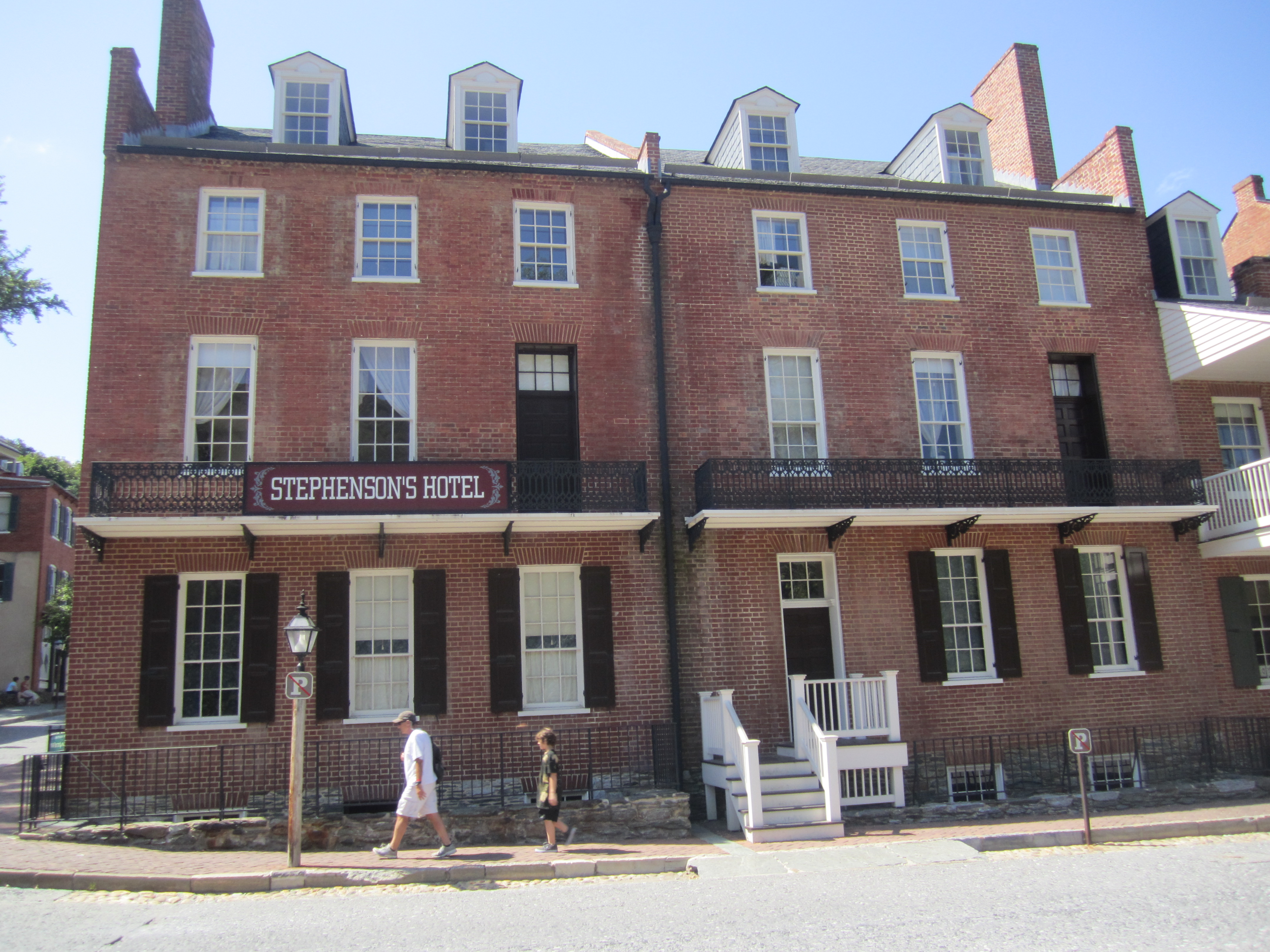 I took photo of Stephenson's Hotel in Harpers Ferry, WV, with Canon camera.